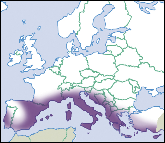 Pyramidula rupestris (Draparnaud, 1801). Distribution in Europe, scientific state of knowledge of 2012. Source description in English. Light colour indicated rare occurrences or regions where the species could eventually be expected to occur. Dark colour indicated relatively reliable occurrences, as well as regions where the species was expected to occur, and where the species was not known to be extremely rare. Dark colour indications were not necessarily based on published records. Species summary in AnimalBase